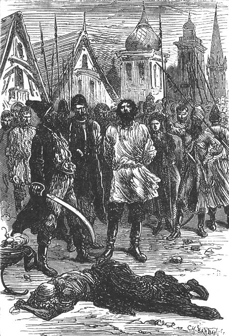 An illustration from the novel "Michael Strogoff: The Courier of the Czar" by Jules Verne drawn by Jules Férat.